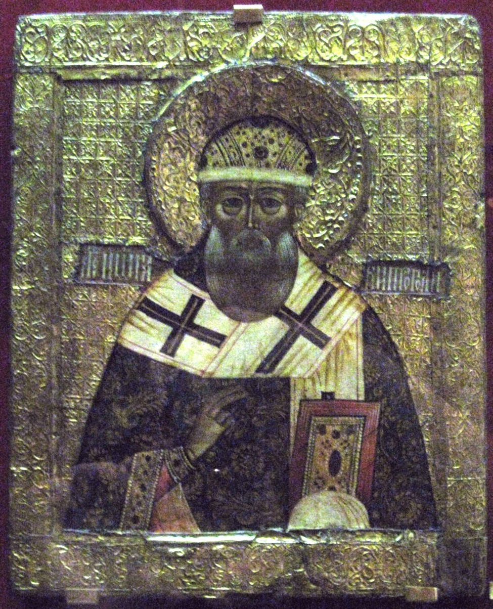 Jonah Metropolitan of Moscow. Иона Московский. Icon of 17 c